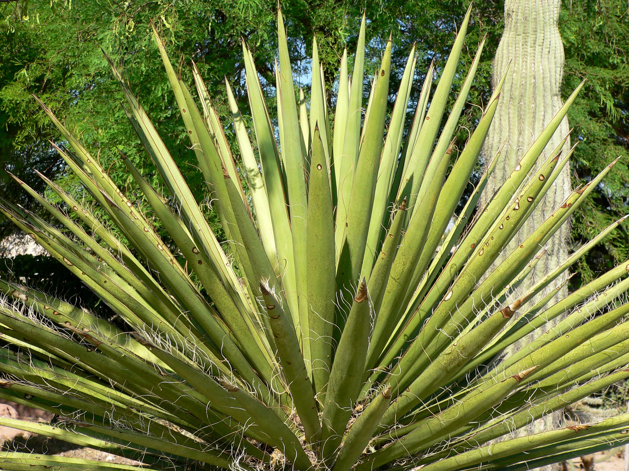 Photo of Yucca faxoniana at the Springs Preserve garden in Las Vegas, Nevada